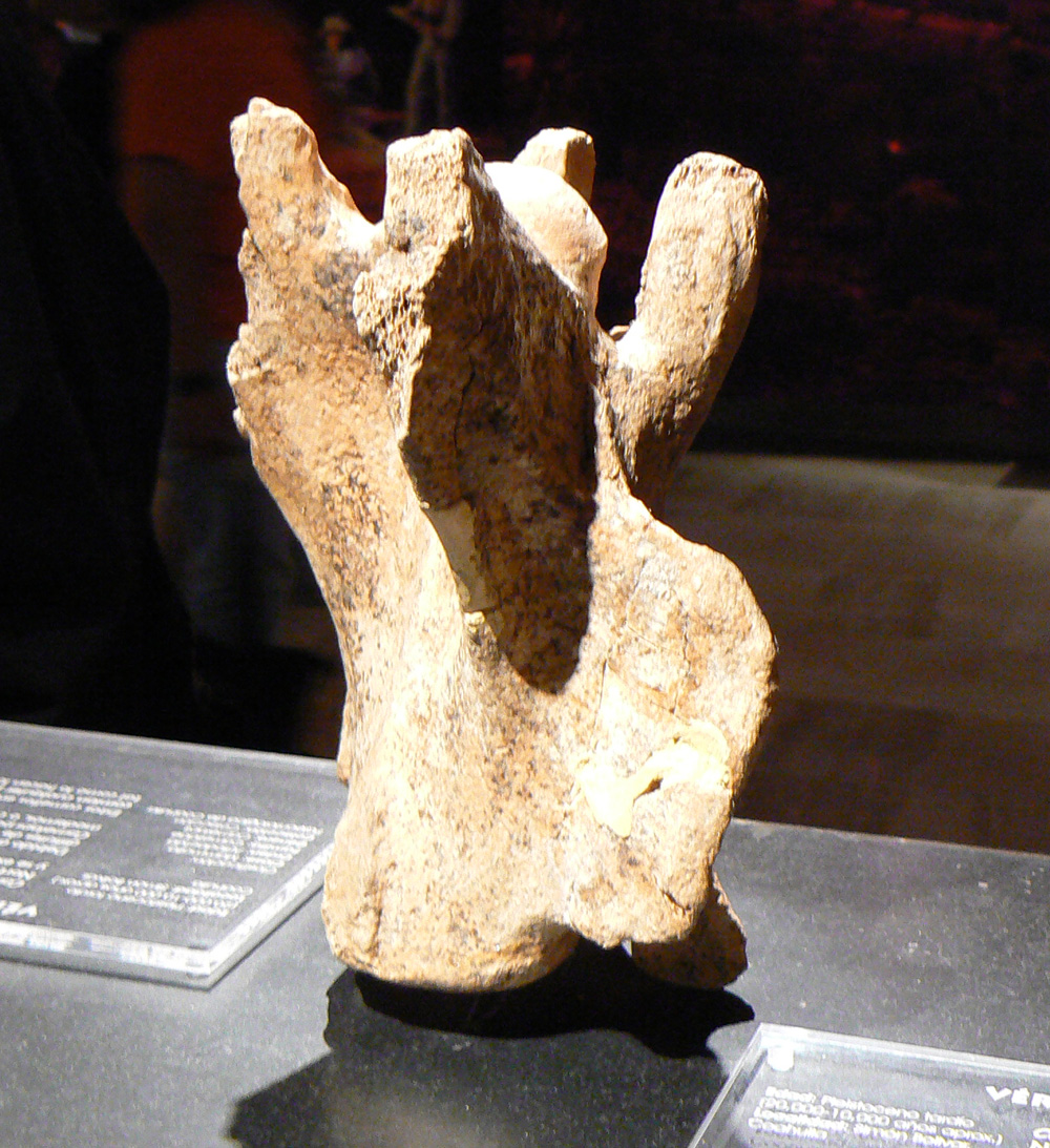 family:Camelidae genera:Camelops (spine bone)